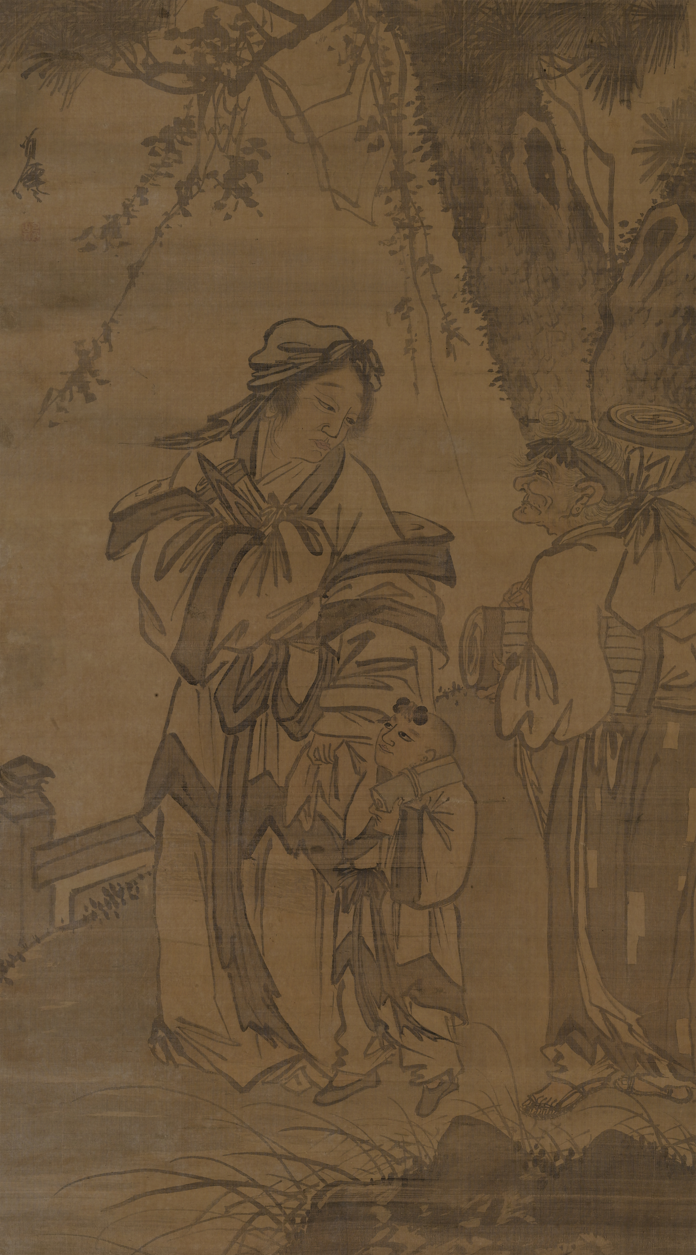 "Mencius is the Latinised name of the ancient Confucian philosopher Mengzi, who lived in the late 4th to early 3rd centuries BC. He lost his father as a boy, and was brought up by his widowed mother, who wove cloth to support them. Famously, Mencius had trouble concentrating on his studies, and his mother moved house several times in search of a suitable learning environment for the lad. In one place, Mencius fought with the neighbour’s children; in another, he was disturbed by the clanging sounds from the blacksmith’s next door. Finally, they settled near a remote school. This painting shows Mencius and his mother moving house; his mother checks that their elderly servant has brought along all his books. In philosophy, Mencius is distinguished for his strongly benevolent view of humanity." —Chester Beatty Library